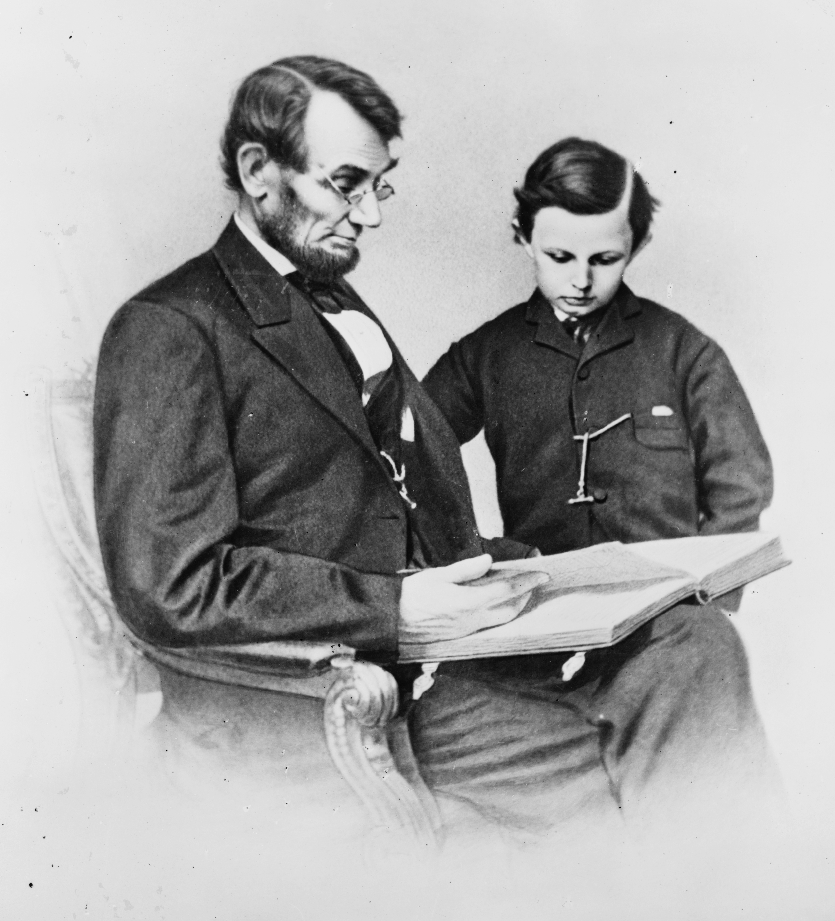 Abraham Lincoln and his son Tad looking at an album of photographs. Ostenorf# O-93; Meserve# M-39